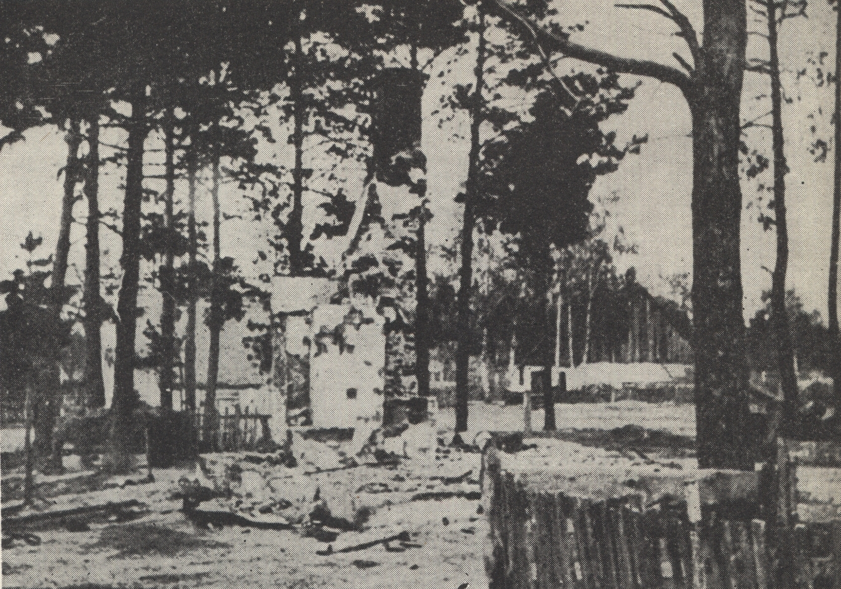 Ruins of Polish village Michniów. On 12-13 July 1943 German occupants completely destroyed Michniów and massacred 204 its inhabitants.